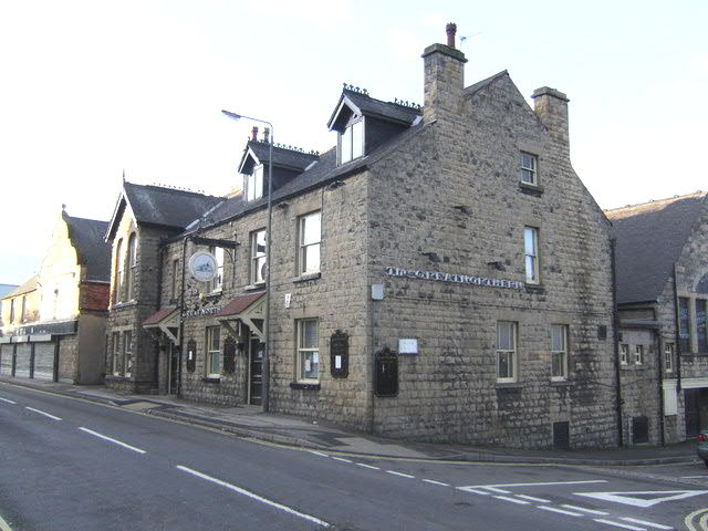 The Great Northern former pub and railway hotel, Shirebrook. The only reminder that the Great Northern Railway had a presence in Shirebrook, adjacent to the (now closed) pub.